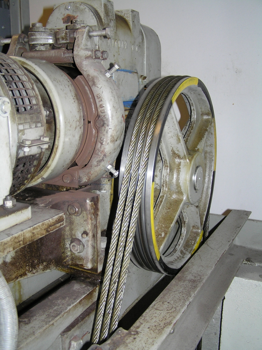 Elevator motor from the 1960's.